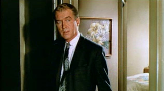 Screenshot from the original 1958 theatrical trailer for the film VertigoFrame taken from MPEG4. Note: This version of the original 1958 theatrical trailer is of significantly lower quality than the 1996 restoration theatrical trailer.